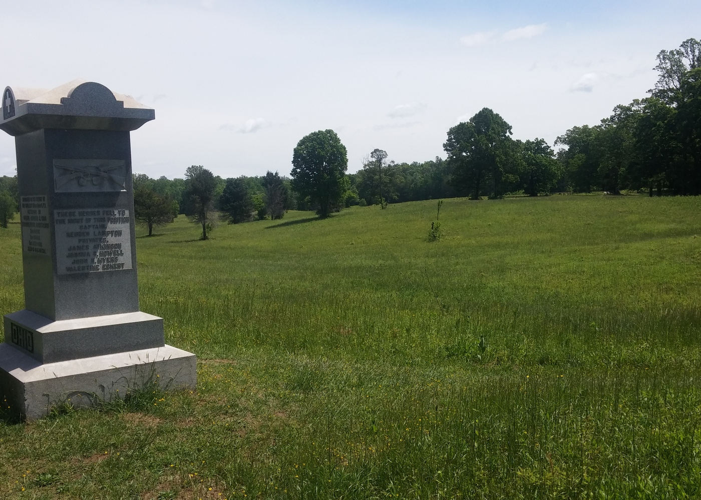 Ravine near bloody angle, Spotsylvania.